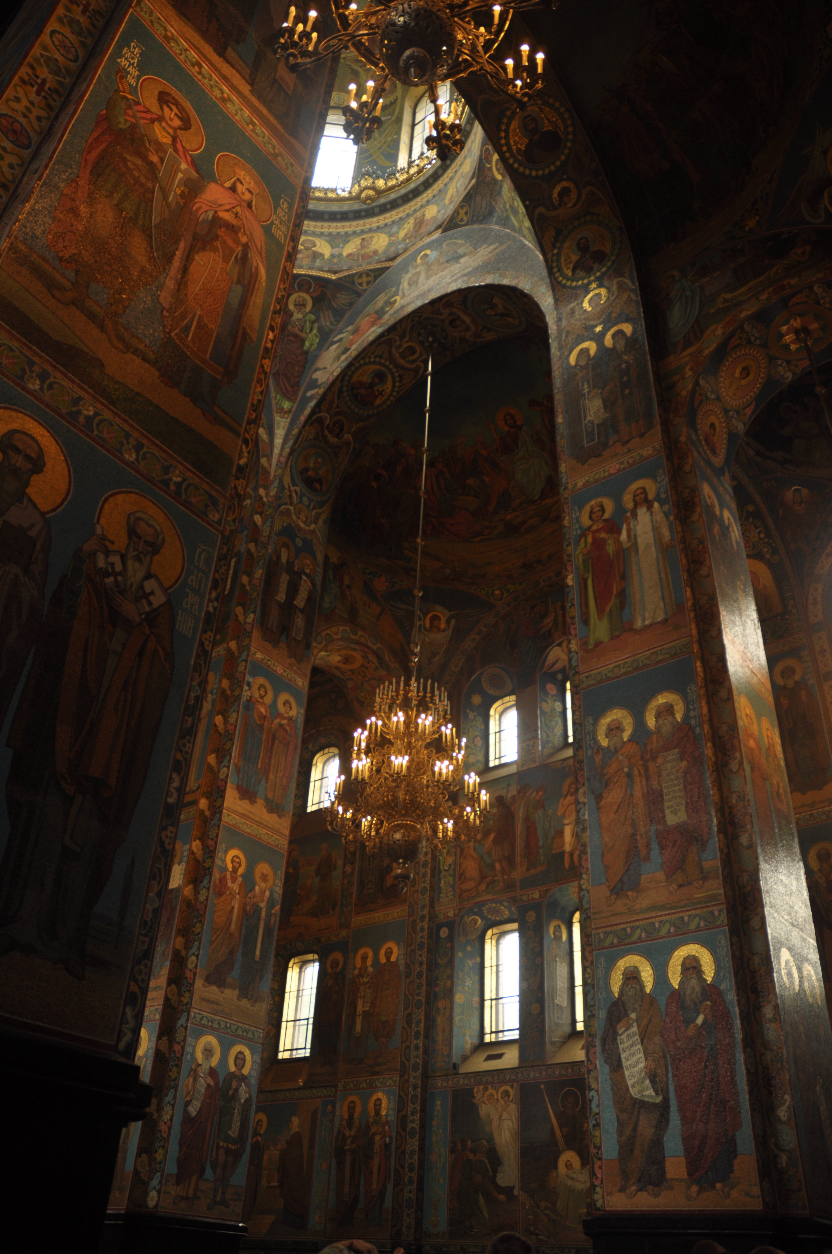 Interior of the Church of the Savior on Blood as lit by natural light